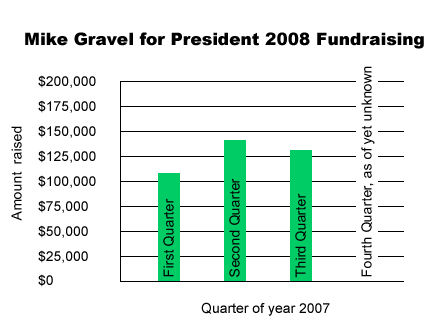 A graph depicting the fundraising efforts of the Mike Gravel for President 2008 campaign during the first three quarters of 2007.